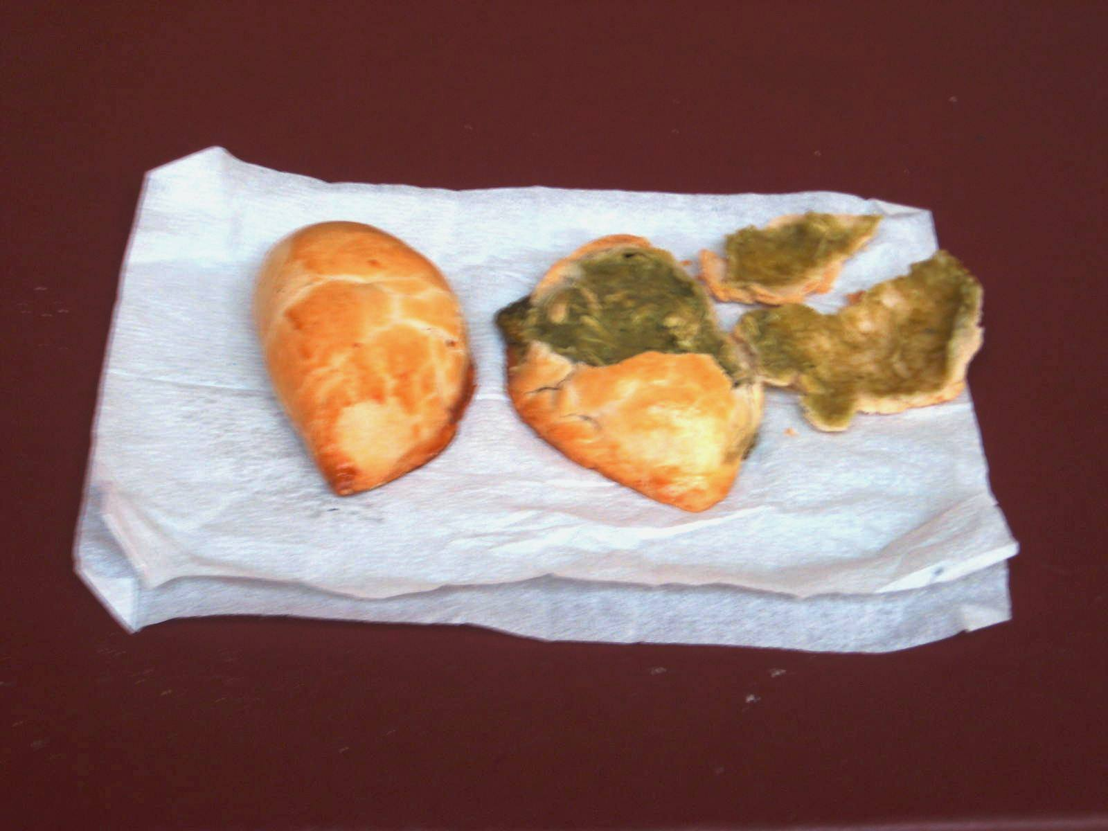 Pastes filled with mole verde from Pastes Tejada in Real del Monte, Hidalgo State, Mexico